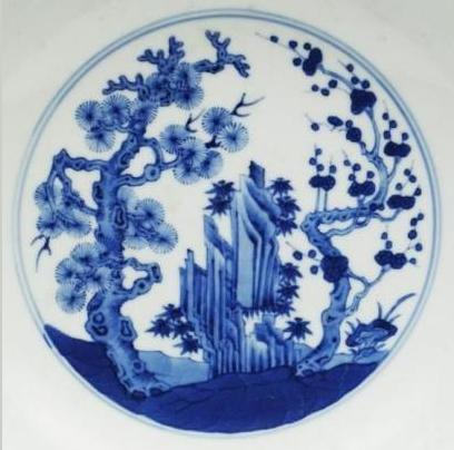 The three friends of winter as portrayed on a Chinese plate dating from the reign of the Qianlong Emperor (1735 - 1796)